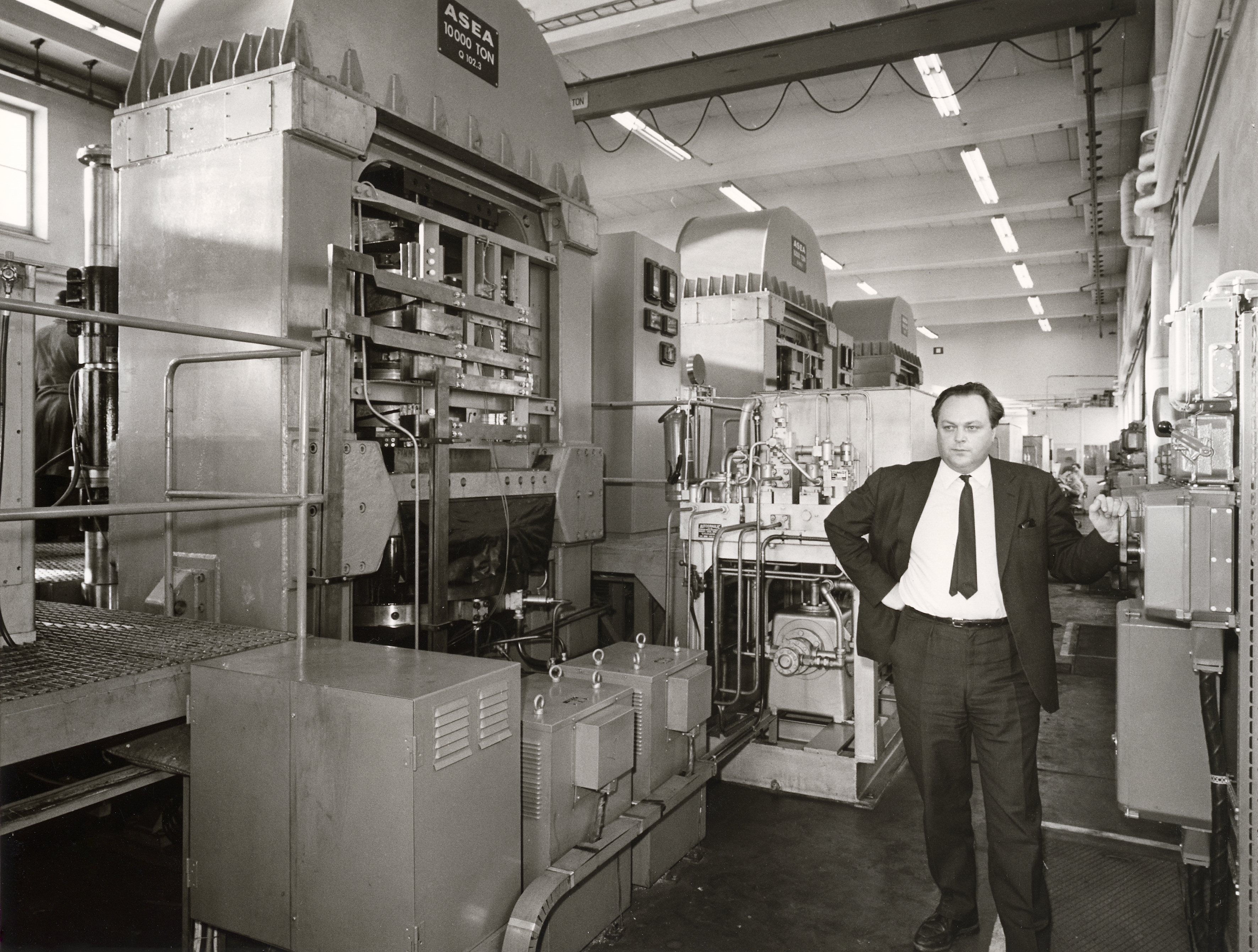 Dr. Erik G. Lundblad in front of the control equipment for one of three 10 000 tons QUINTUS presses. The ASEA presshall in Robertsfors, Sweden 1963.